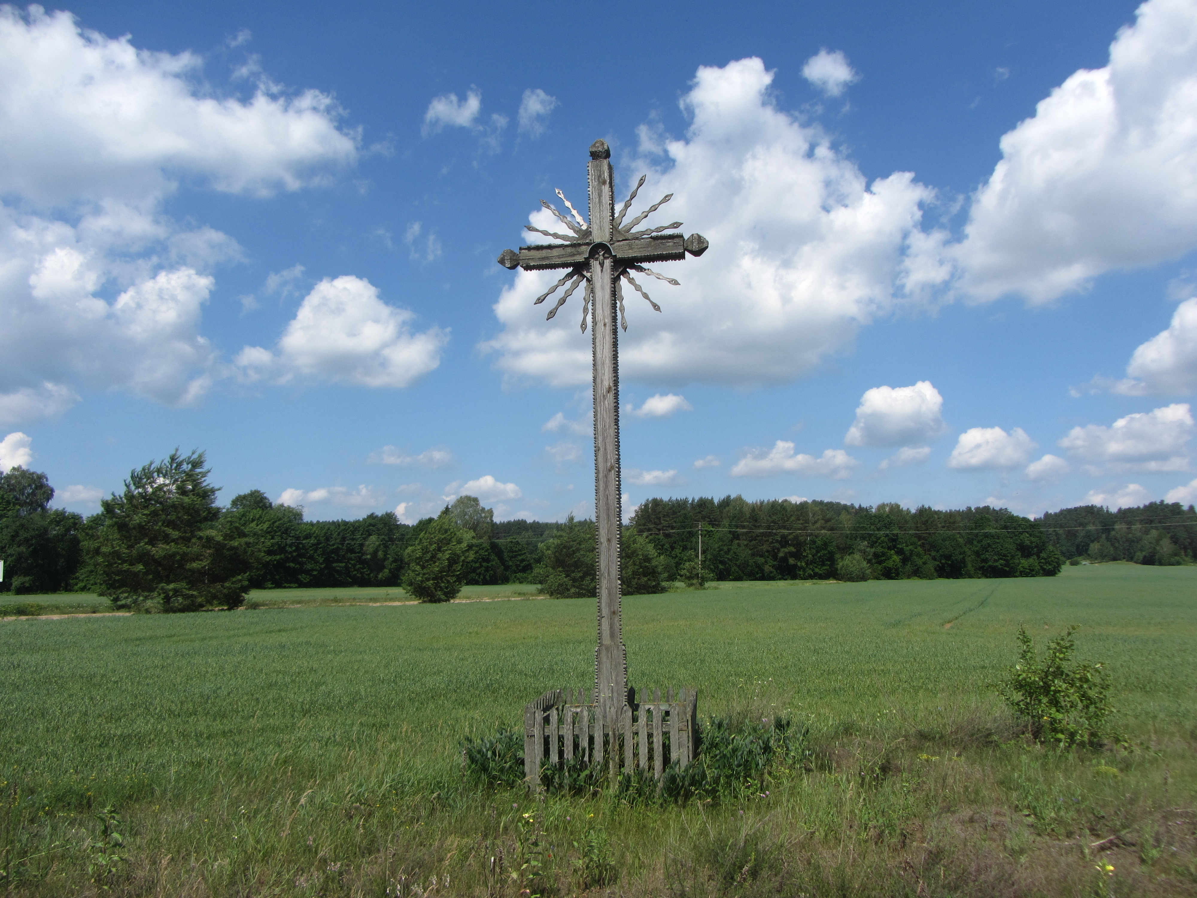 Birštono sen., Lithuania